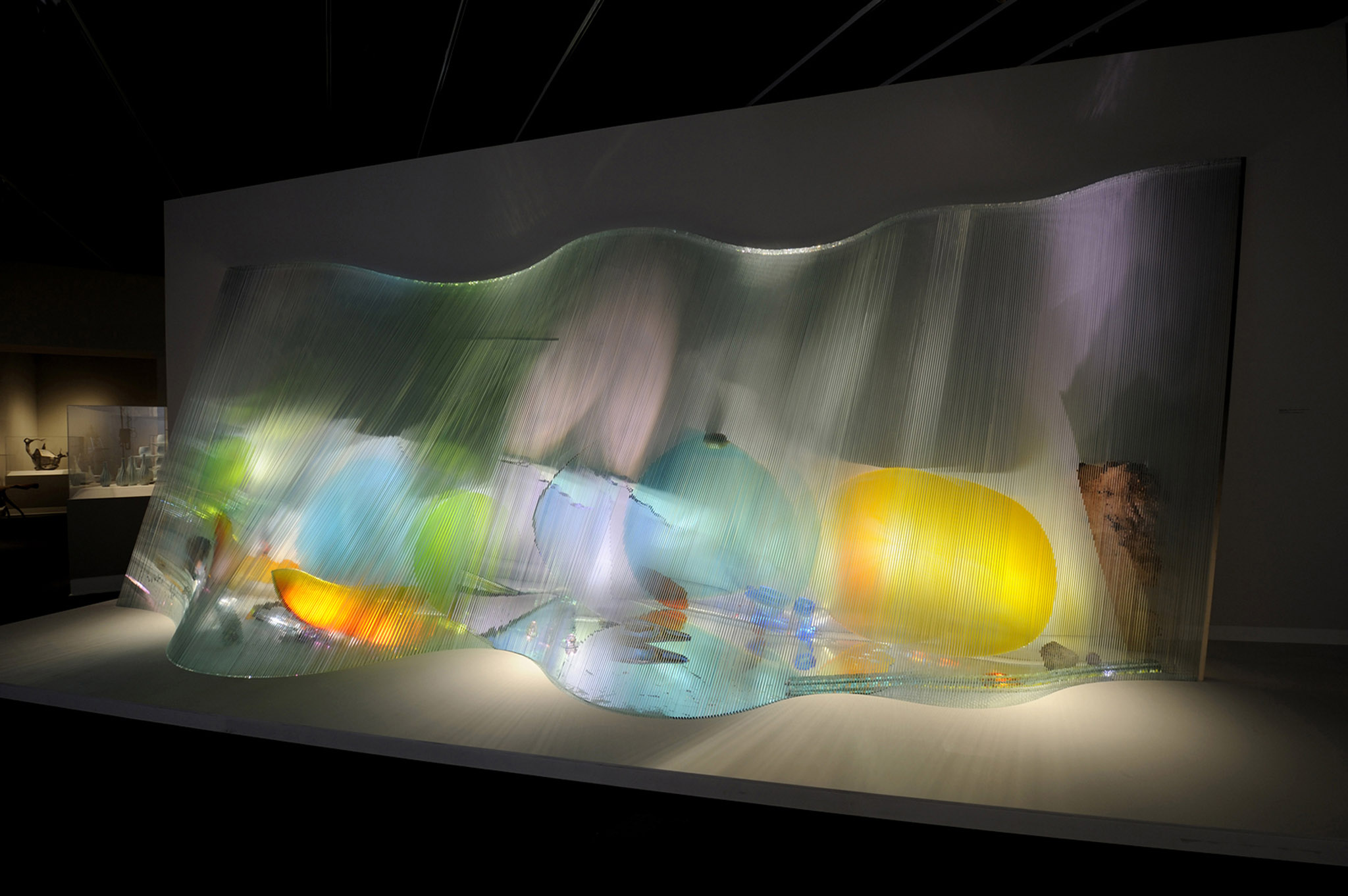 Threshold, Danny Lane, 2010, Low iron glass, colour poured glass